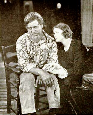 Still from the American film Louisiana (1919) with Noah Beery and Vivian Martin, page 1080 of the August 2, 1919 Motion Picture News.